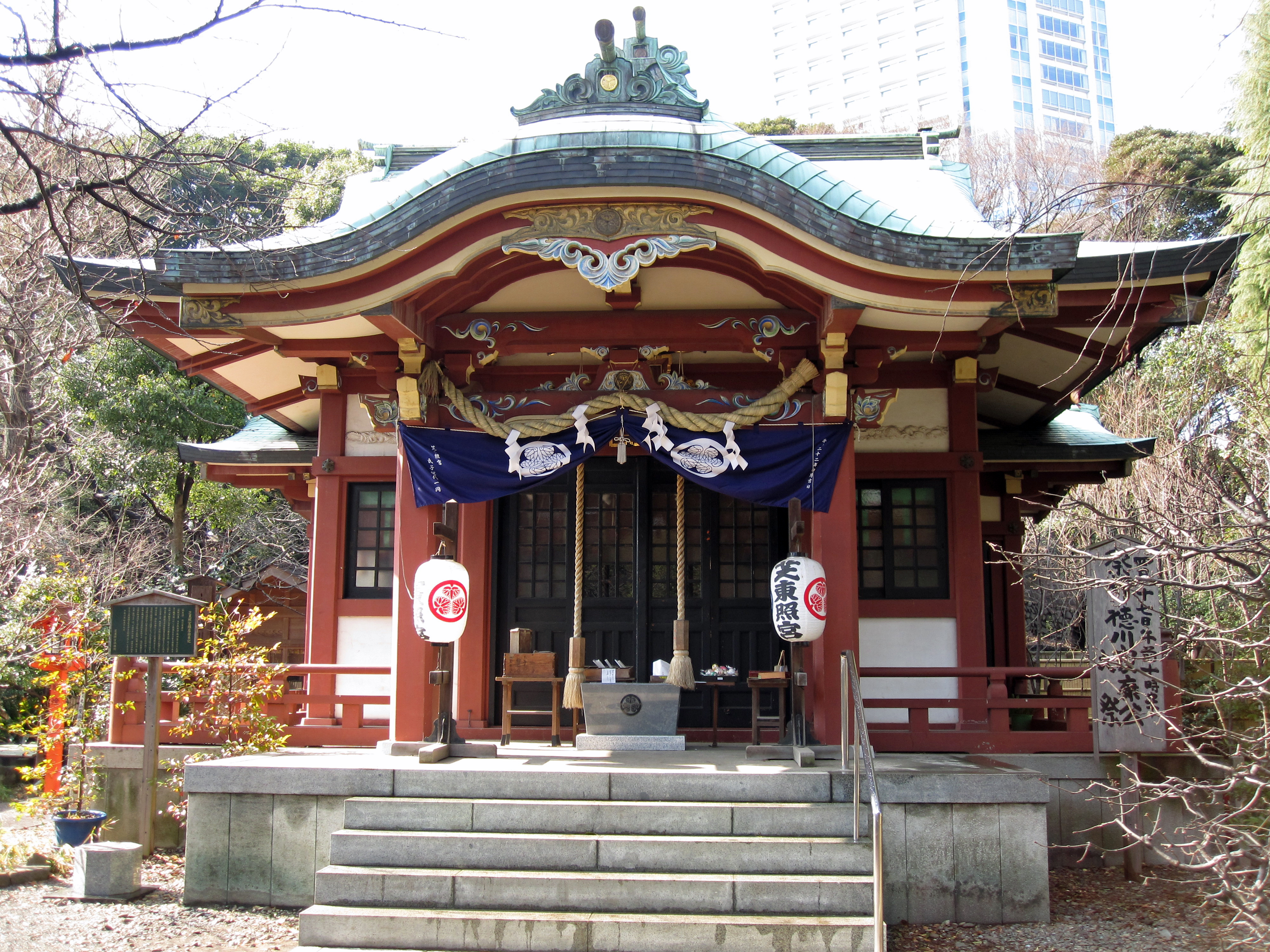 Front shrine, Shiba-Tōshōgū